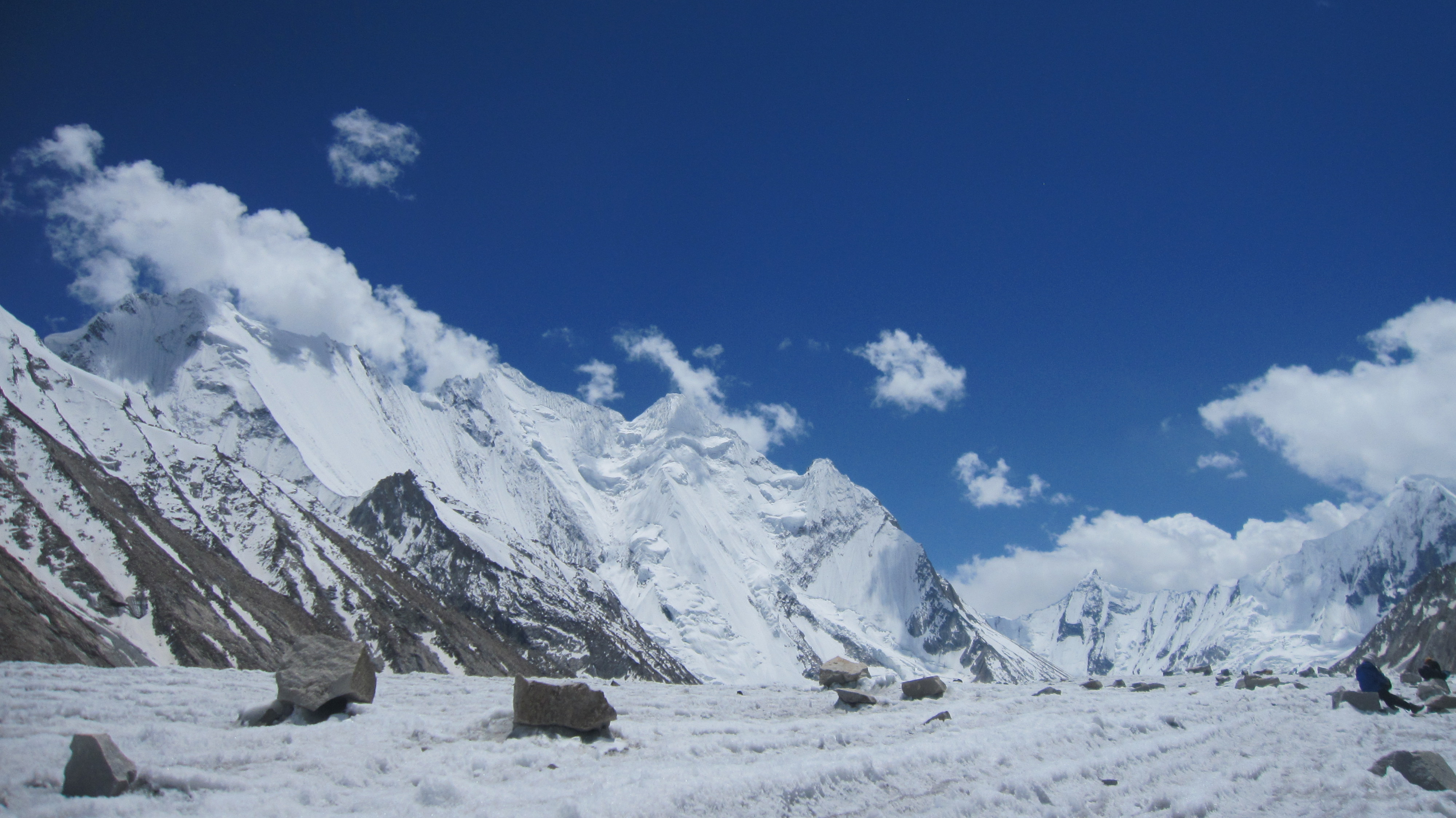 Looking uphill on Vigne Glacier